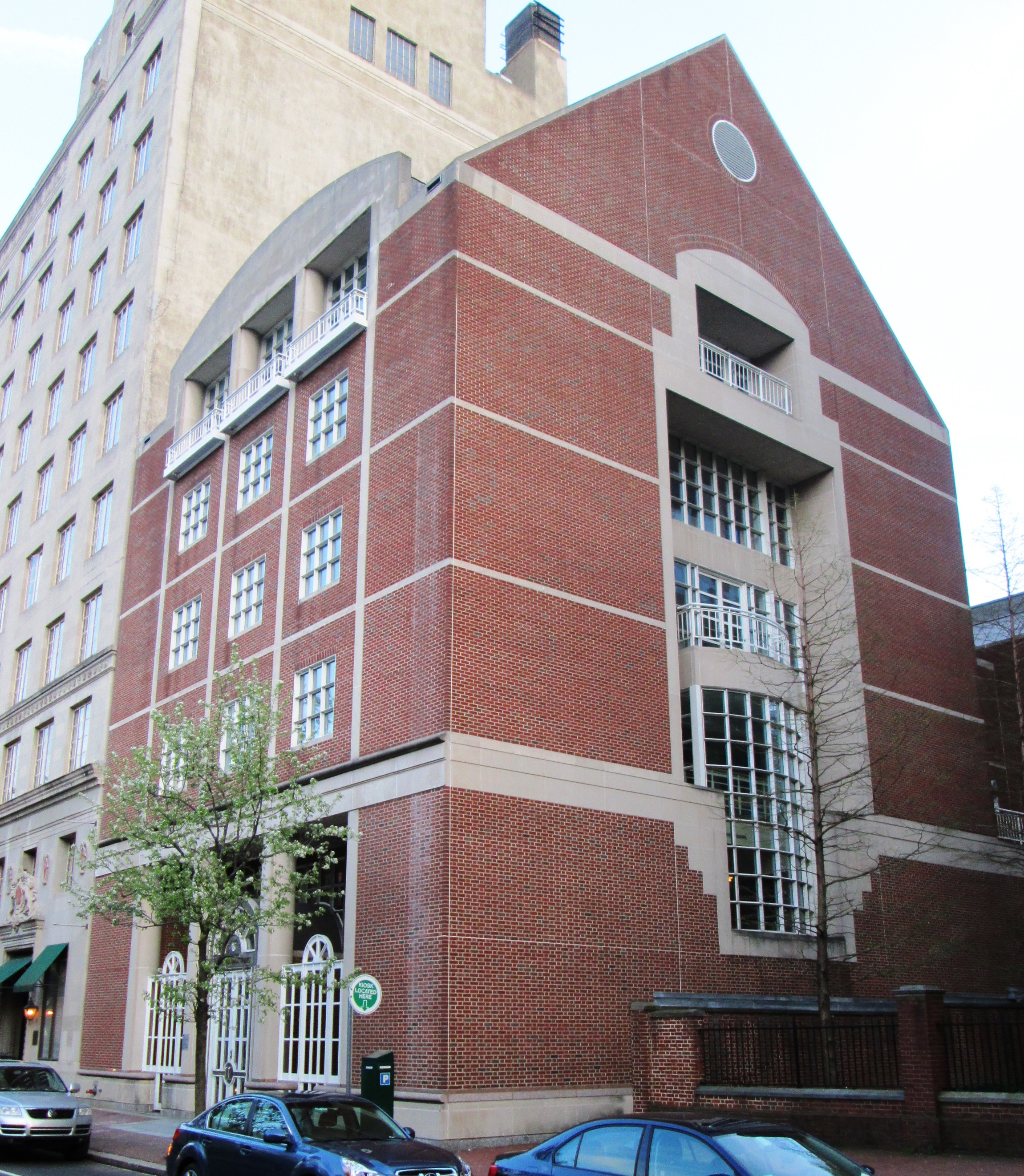 The Herbert D. Katz Center for Advanced Judaic Studies at 420 Walnut Street between S. 4th and S. 5th Street in the Old City neighborhood of Philadelphia was built in 1988 and was designed by the firm of Geddes Brecher Qualls& Cunningham. Originally founded in 1911 as Dropsie College, a grant from Walter F. Annenberg enabled them to move to their current headquarters, and to their affiliation with the University of Pennsylvania. (Source: Philadelphia Architecture: A Guide to the City (2nd ed.))